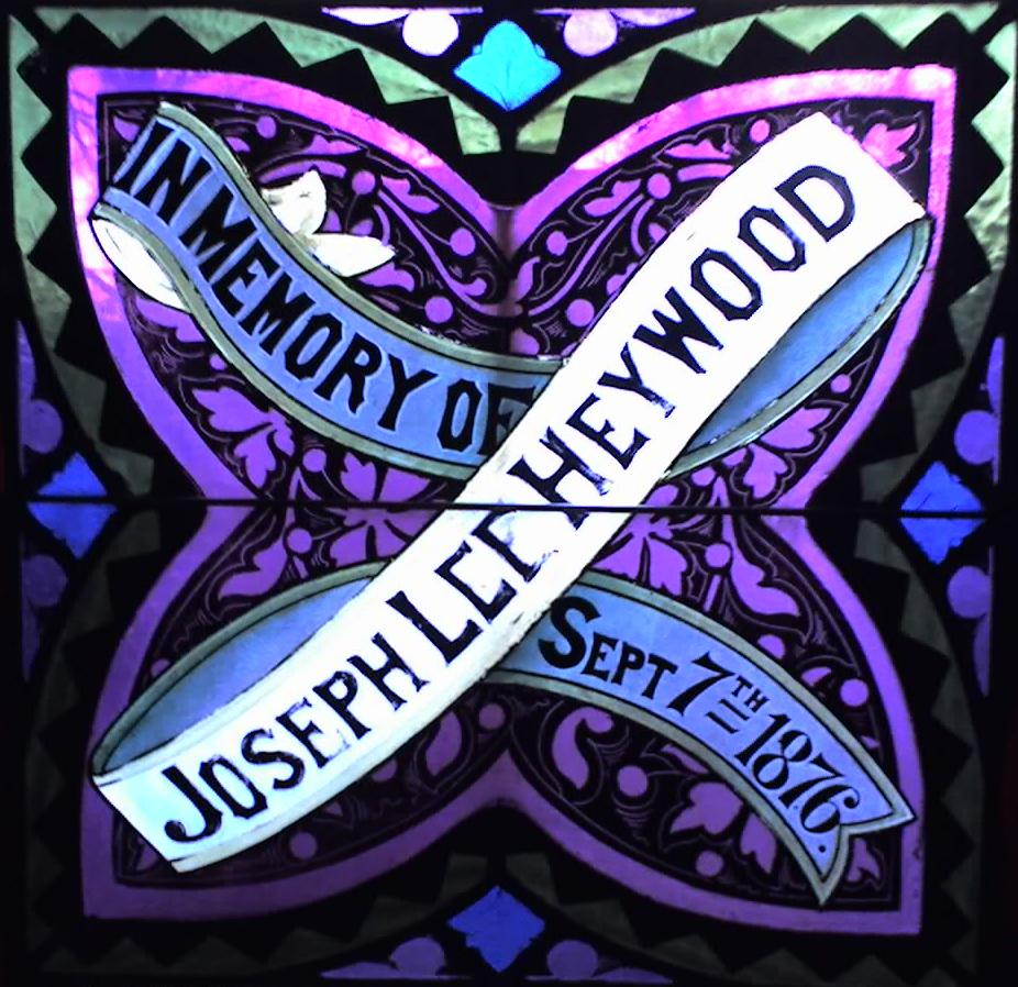 Heywood memorial stained glass window. 2007 photo taken by the Uninvited Co., Inc.'s pseudonymous self, photo rights if any (copy of flat artwork not subject to copyright) released under GFDL. Stained glass artwork is an anonymous work created and placed on public display prior to 1923.